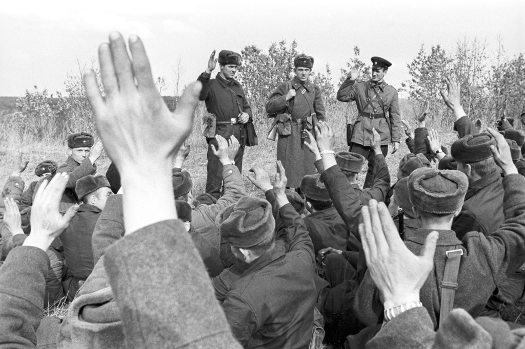 “Border guard Nikolai Zaitsev is inducted into Komsomol”. Private Nikolai Zaitsev being unanimously inducted into the Komsomol during a border guards' military drill. The Far East.